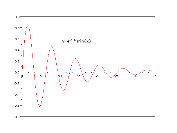 Plot of function y=e^(-0.1*x)*sin(x)